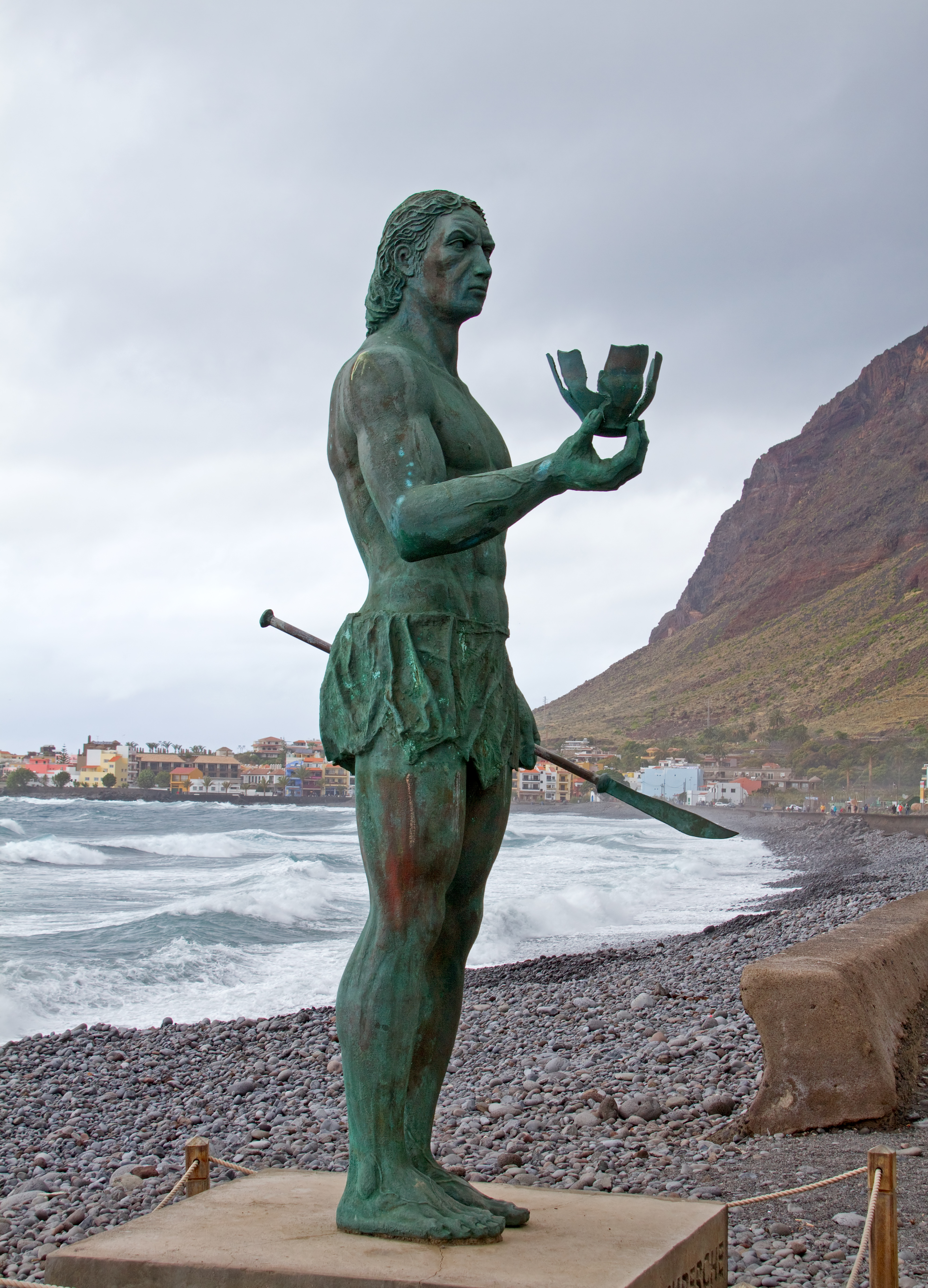 Hautacuperche Statue at the beach in Valle Gran Rey